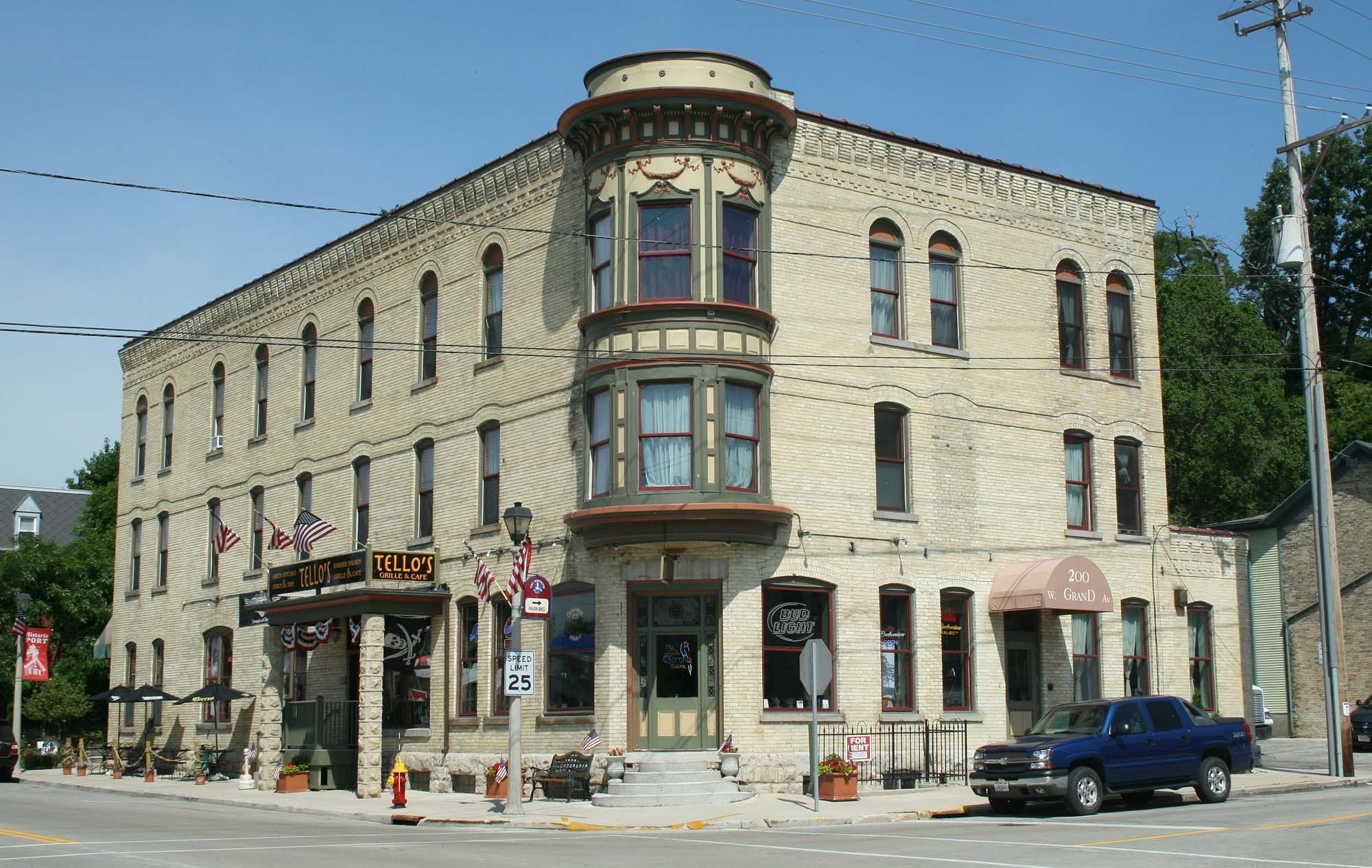 The Hoffman House Hotel, Registered Historic Place, Port Washington, Wisconsin.